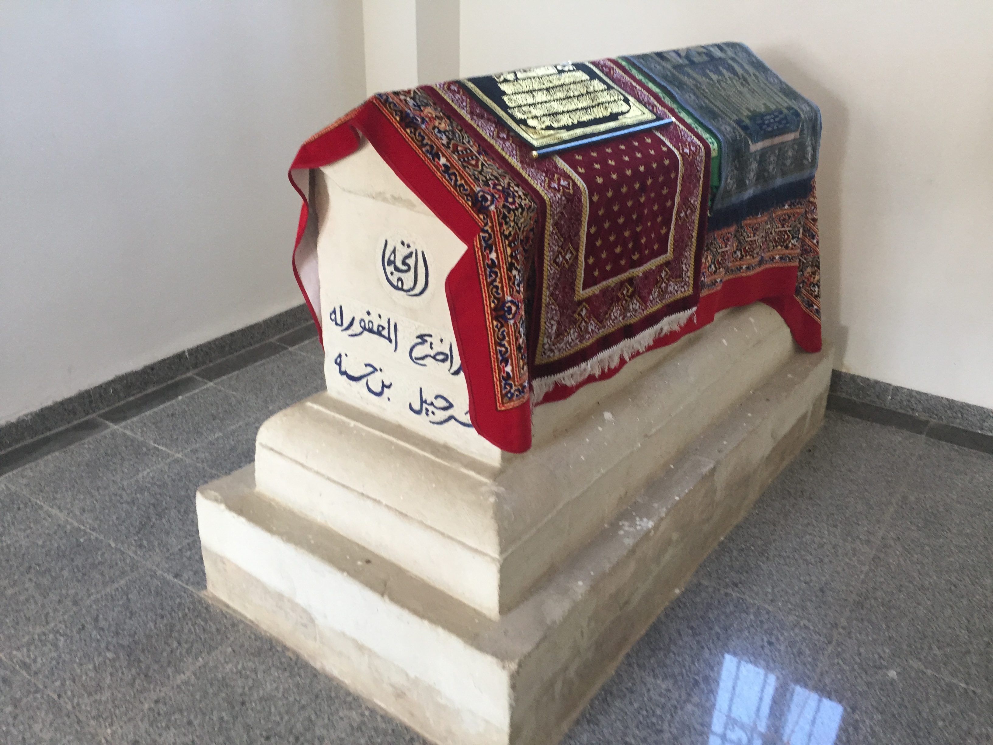 Shrine of Sharhabeel ibn Hasana